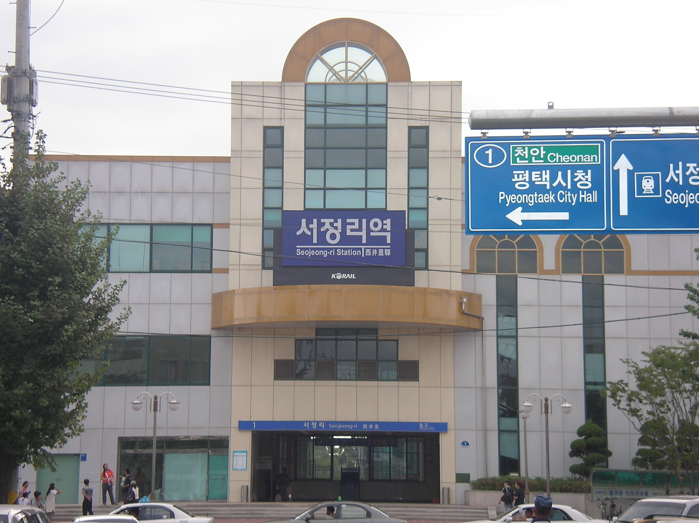 Seojeong-ri Station